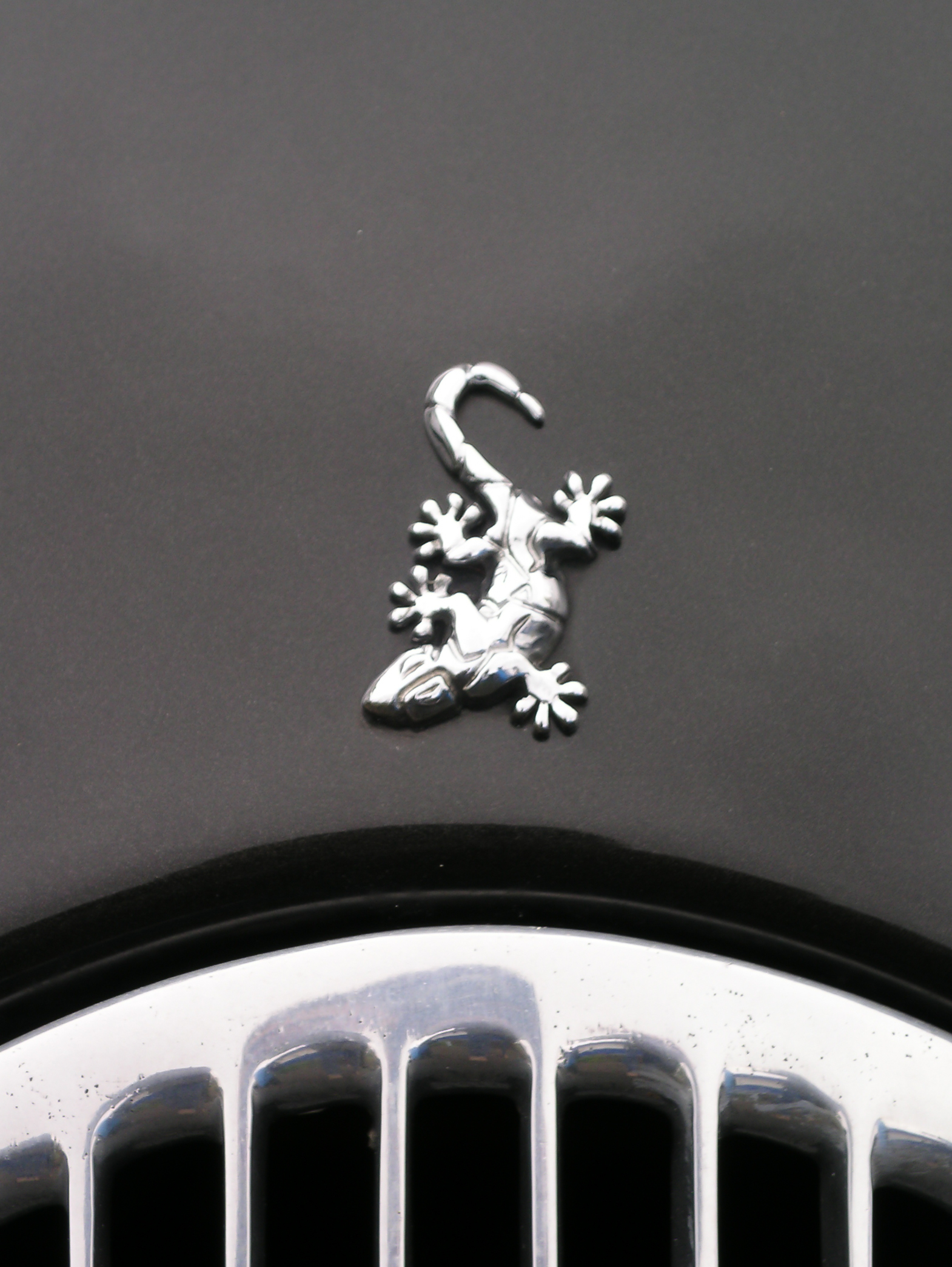 Wiesmann Roadster at the Sportwagenmanufaktur Wiesmann (industrial area „Telgenkamp“), Dülmen, North Rhine-Westphalia, Germany